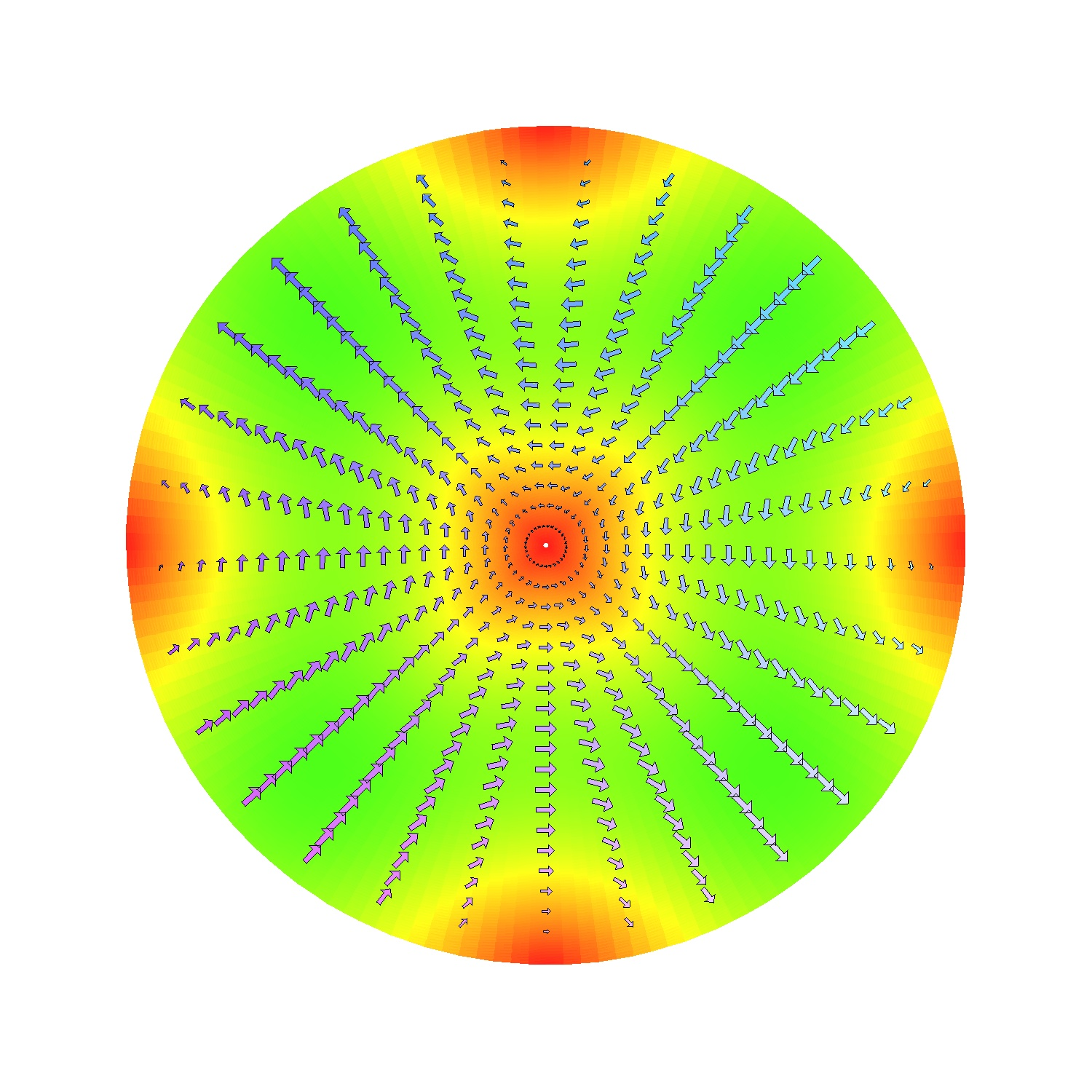 Plot of E and H fields on the TEnl mode defined by n and l.